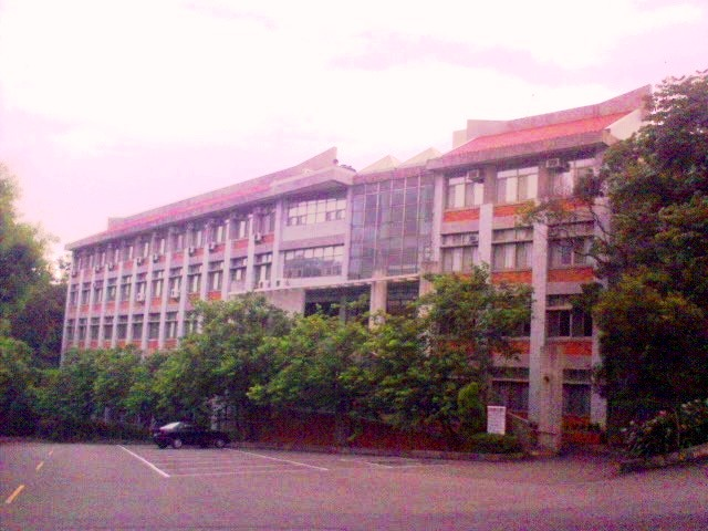 Chung Hua University's humanities building